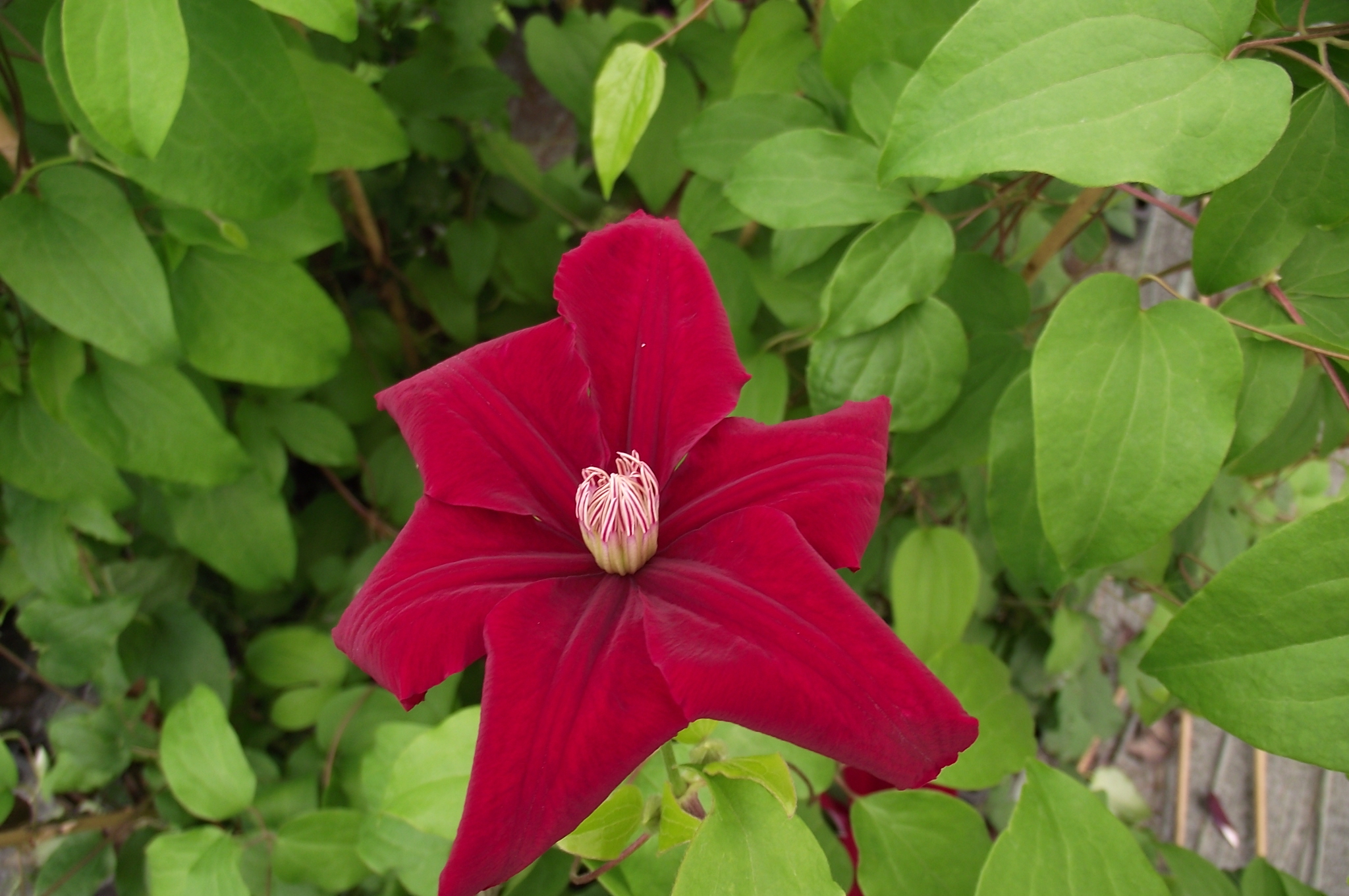 Clemtatis evipo018